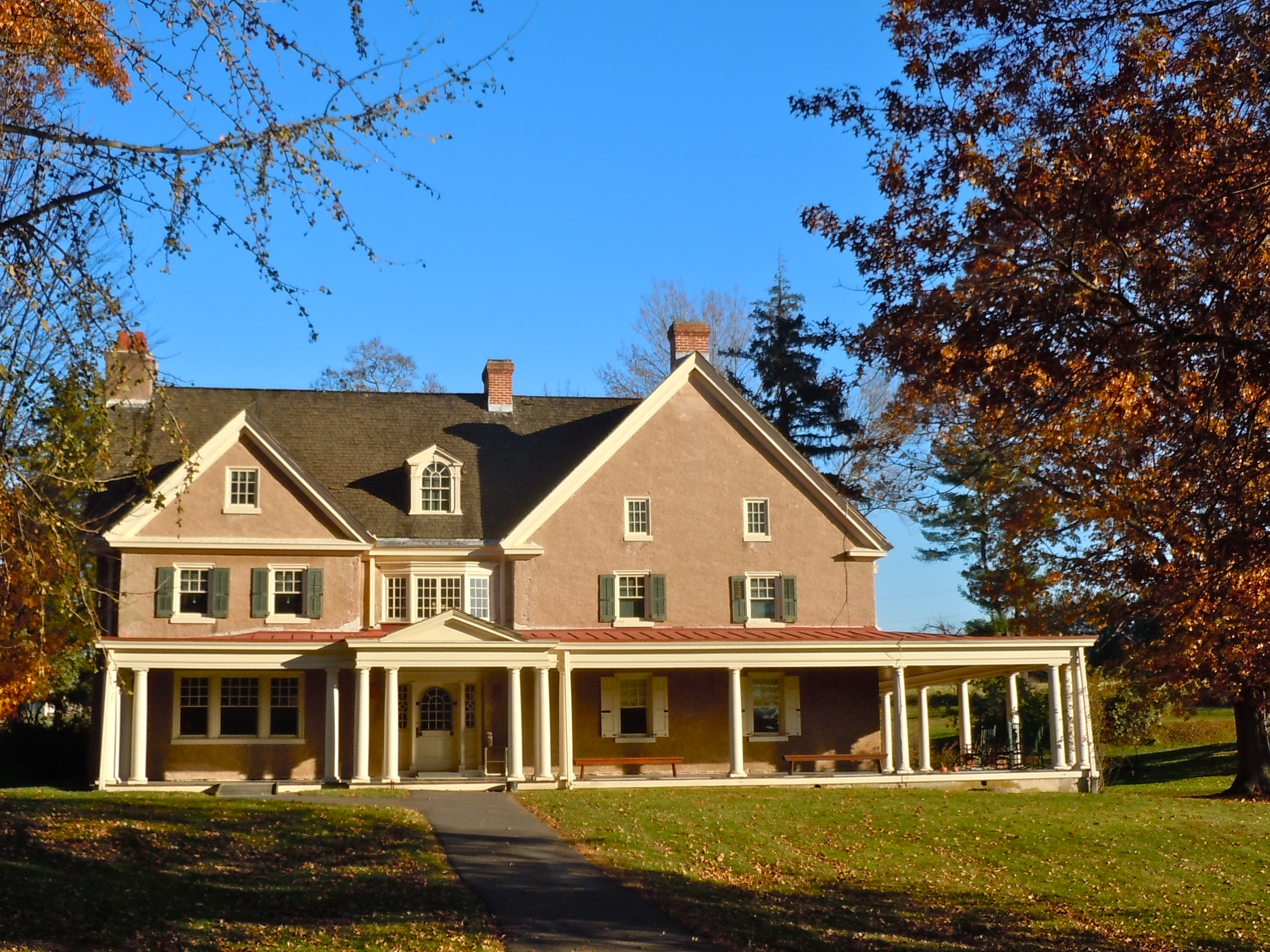 Pennypacker Mansion (or "Pennypacker Mills") on the NRHP since November 7, 1976. At 5 Haldeman Road (just east of Perkiomen Creek), Schwenksville, Montgomery County, Pennsylvania. Home of Governor Pennypacker (early 1900s). 1890ish house built around 1720, 1760 family homestead. Impressive - should be NHL.